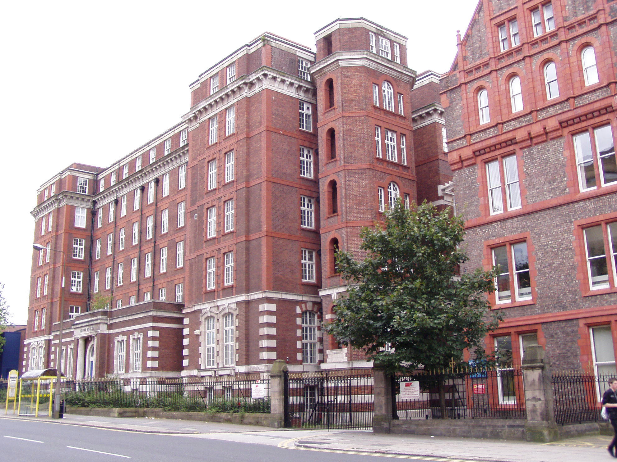 Royal Liverpool Infirmary